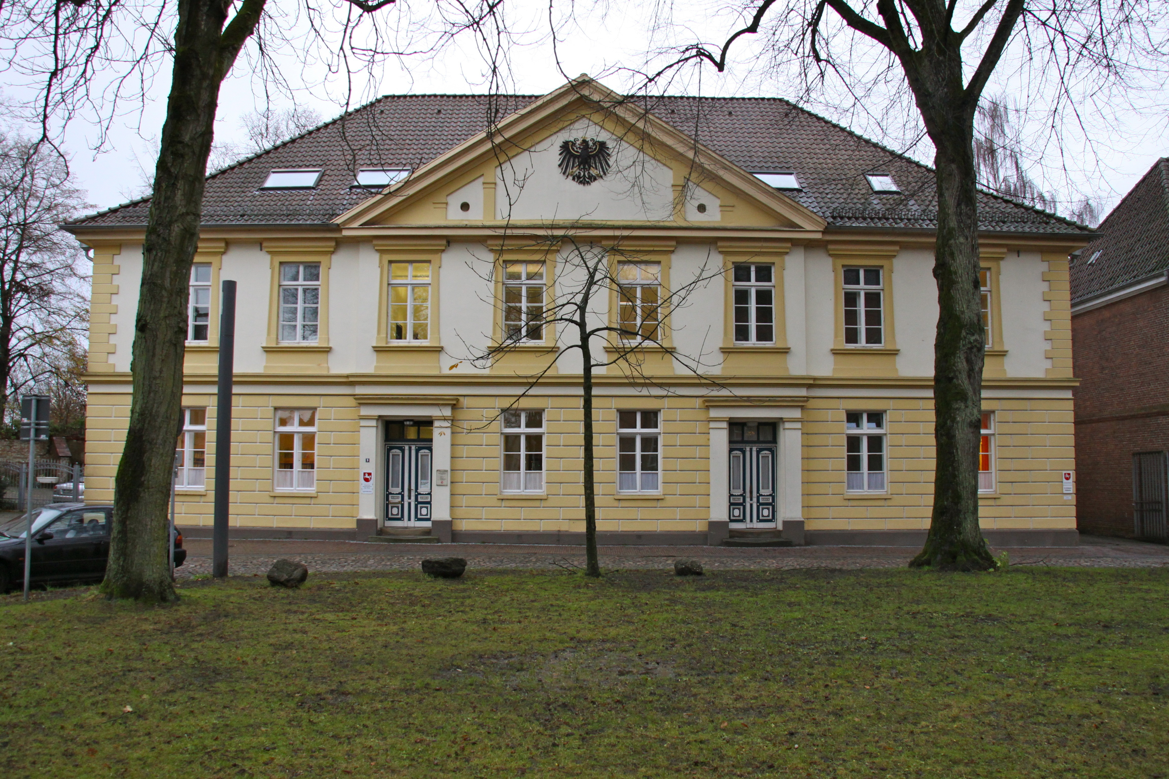 Staatshochbauamt in Aurich